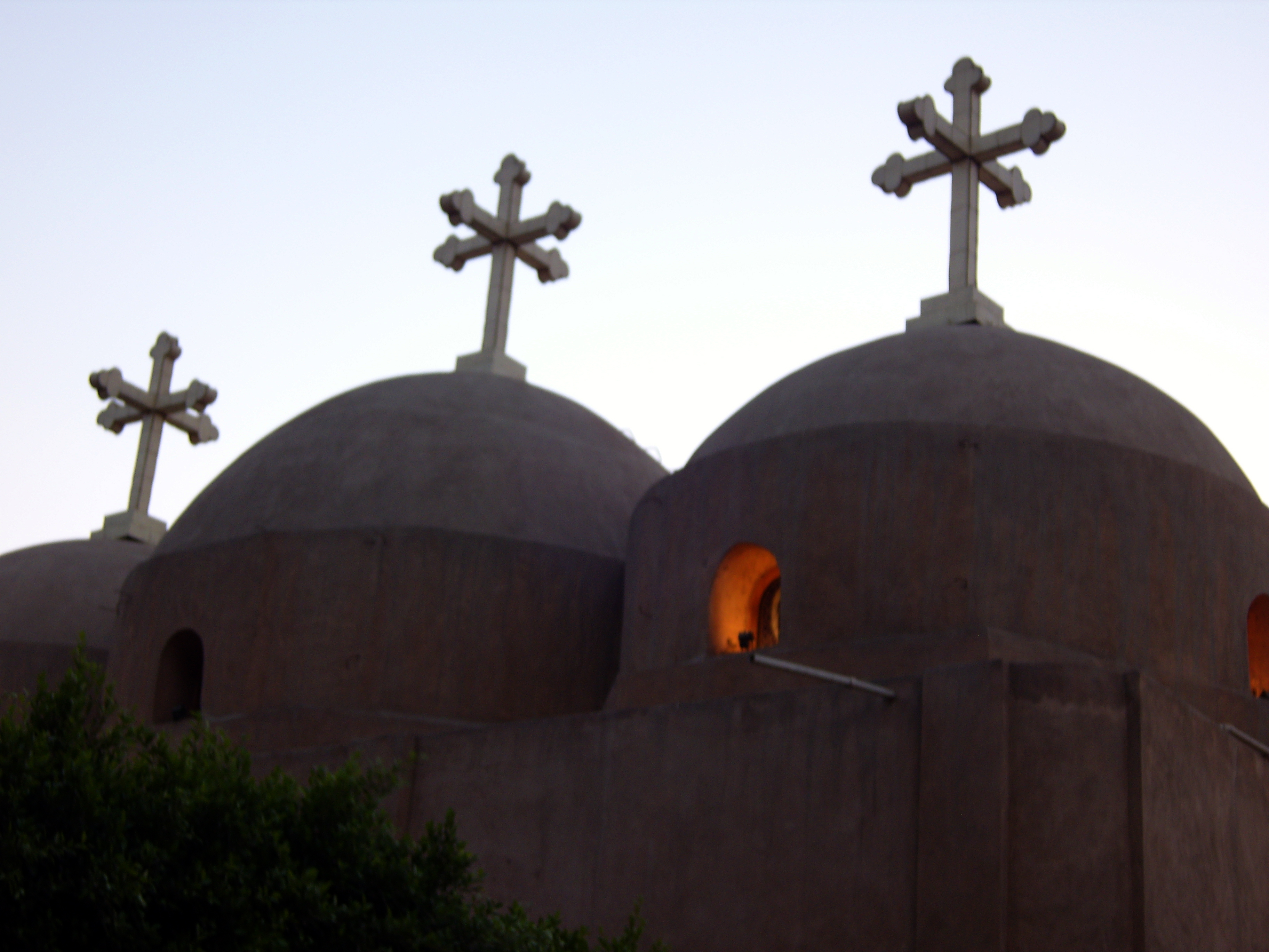 Church in Coptic Cairo, Egypt (Name?)